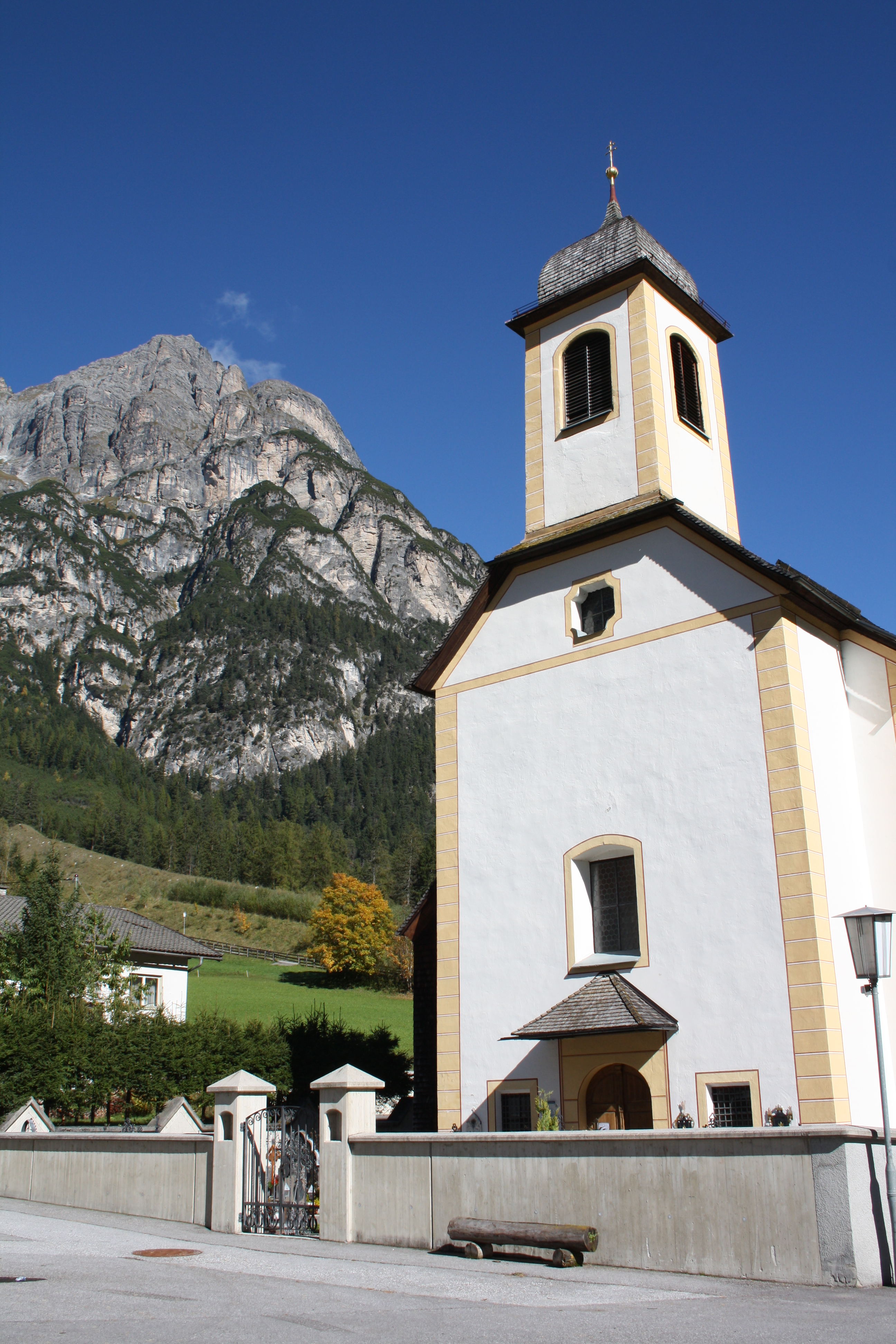 Austria , Tyrol (state), Gschnitz. Unsere liebe Frau Maria-Schnee